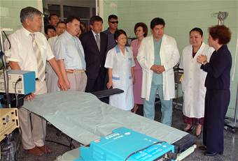 Marie Yovanovitch, U.S. ambassador to the Kyrgyz Republic, tours the National Center of Oncology in Bishkek, Kyrgyzstan, to see the medical equipment provided by the 376th Expeditionary Medical Group at Manas Air Base.